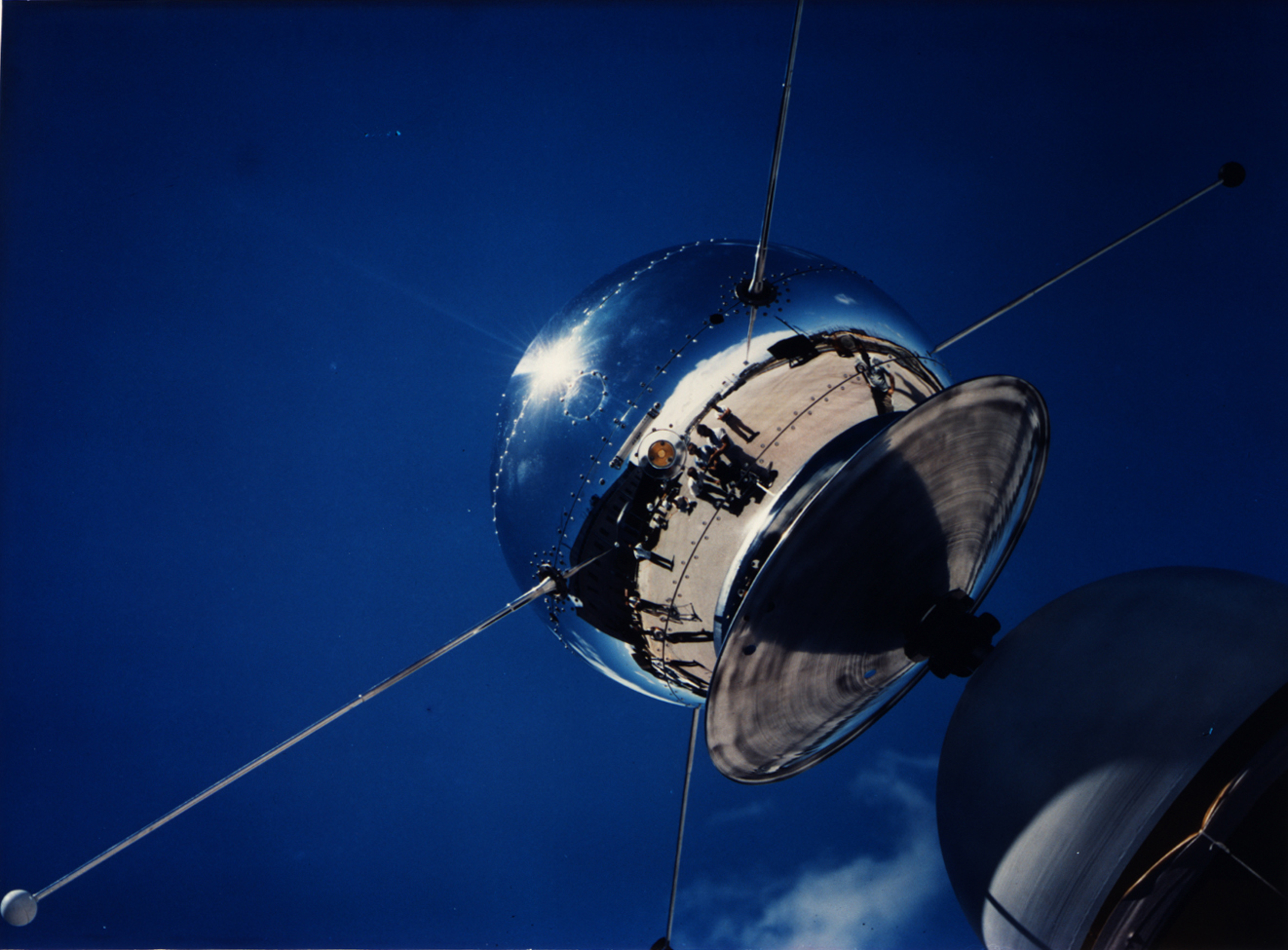 Vanguard satellite SLV-2 is being checked out at Cape Canaveral, Florida. The Solar X-ray radiation satellite was launched June 26, 1958. The second stage of the launch vehicle ended prematurely due to low chamber pressure and terminated the mission. The launch was part of the U.S. International Geophysical Year program under the direction of the Office of Naval Research.